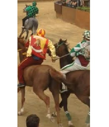 Columbu (left) hold Chessa's horse (right)